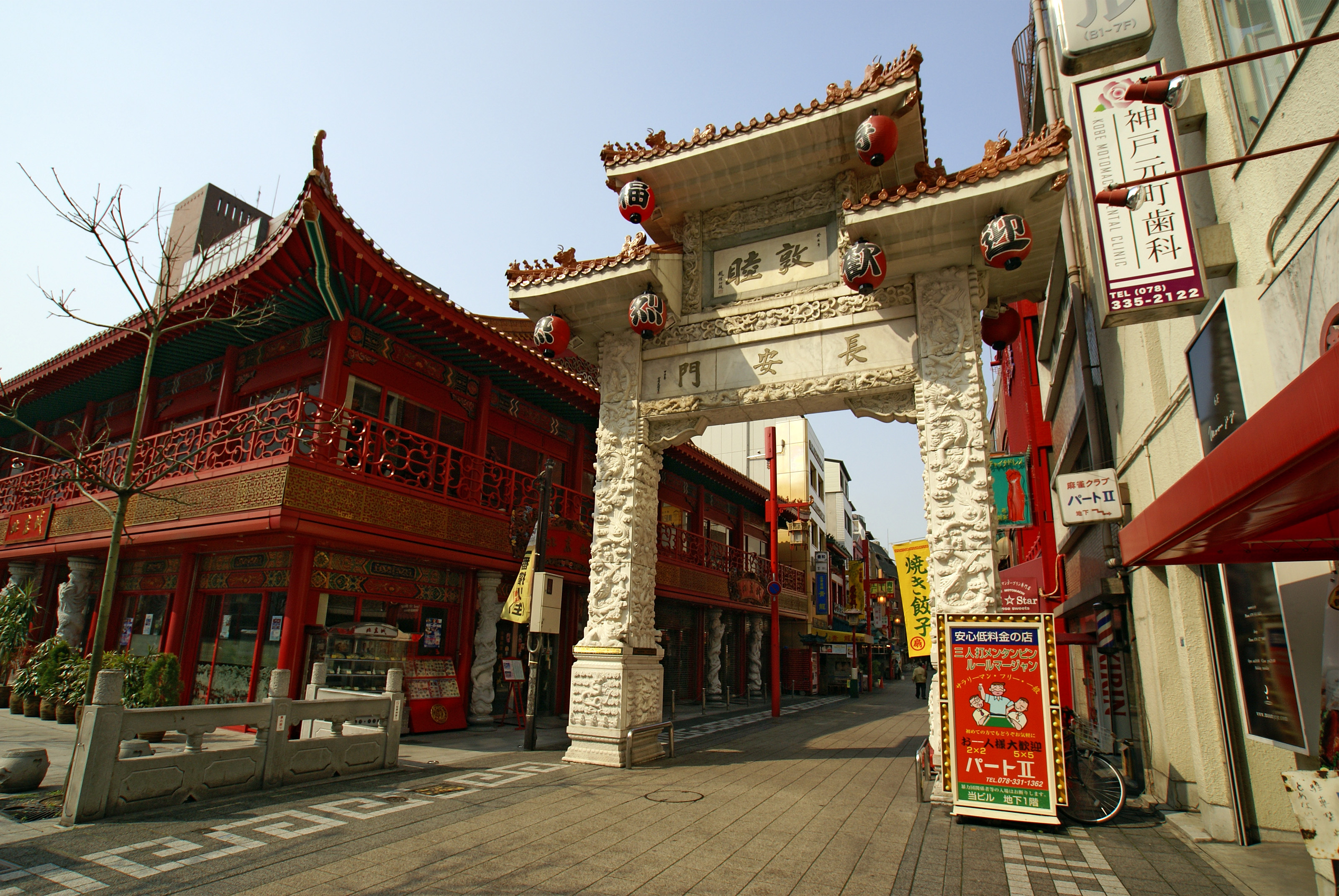 China Town "Nankinmachi" in Kobe, Hyogo prefecture, Japan